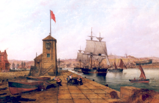 Sunderland Harbour, England. Painted in the late 19th century by S. H. Bell from a sketch completed earlier in the century. Stuart Henry Bell (1823 - 1896). Marine and scenic painter in oil. Born in Newcastle. Bell became connected with Tyneside theatres in his boyhood, and is said to have become a scene painter at an early age. His first commission was to paint scenery for the Theatre Royal, Newcastle, following which he was engaged in this line by almost every metropolitan and provincial theatre, from 1850 achieving special recognition for his marine back-drops. In 1855 he moved to Sunderland and eventually devoted himself to being a professional artist painting marine subjects in oil. He then achieved such accomplishment that it is said that in 1886 Queen Victoria regarded him as the best marine painter since Clarkson Stanfield RA (1793-1867). His work was exhibited principally at Newcastle including the Central Exchange News Room Art Gallery and Polytechnic Exhibition, Newcastle in 1870. Where he showed Entrance to Sunderland Harbour (his favourite subject). He was also a regular exhibitor at the Bewick Club, Newcastle and the Central Exchange Gallery. Sunderland Art Gallery has a collection of his marine paintings, dated 1857 - 1896.